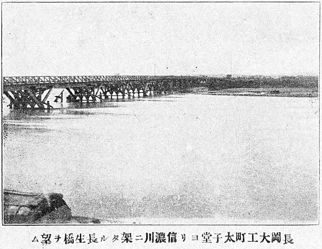 Chōsei Bridge, Nagaoka, Niigata Prefecture, Japan in Meiji era